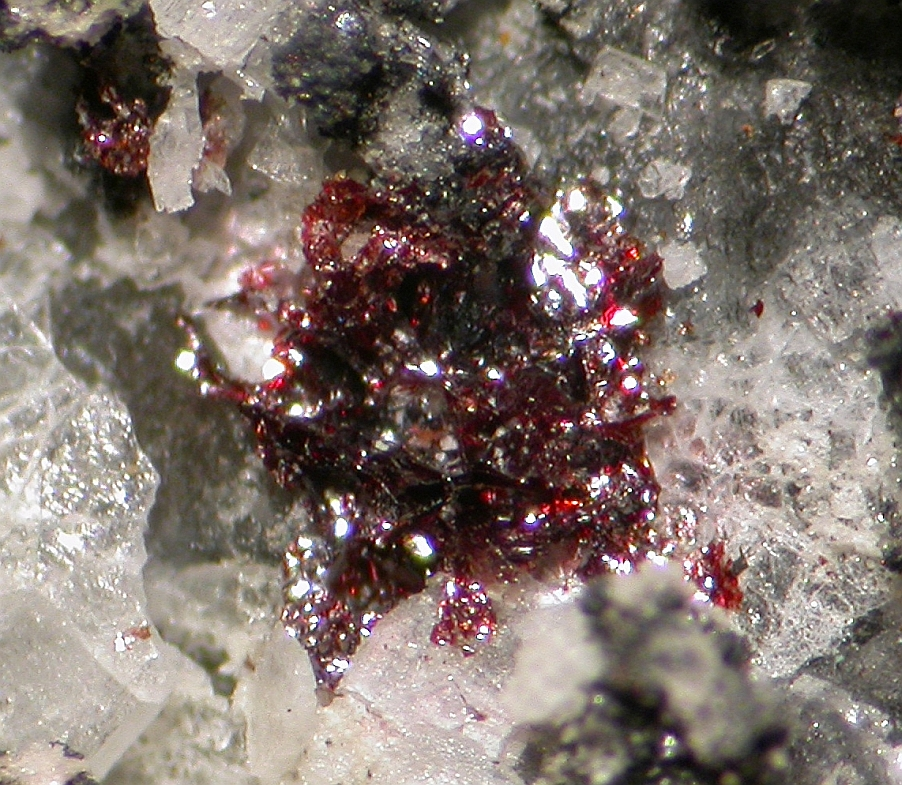 Fettelite Locality: Glasberg quarry, Nieder-Beerbach, Mühltal, Odenwald, Hesse, Germany Field of view 4 mm. Specimen and photo Leon Hupperichs.